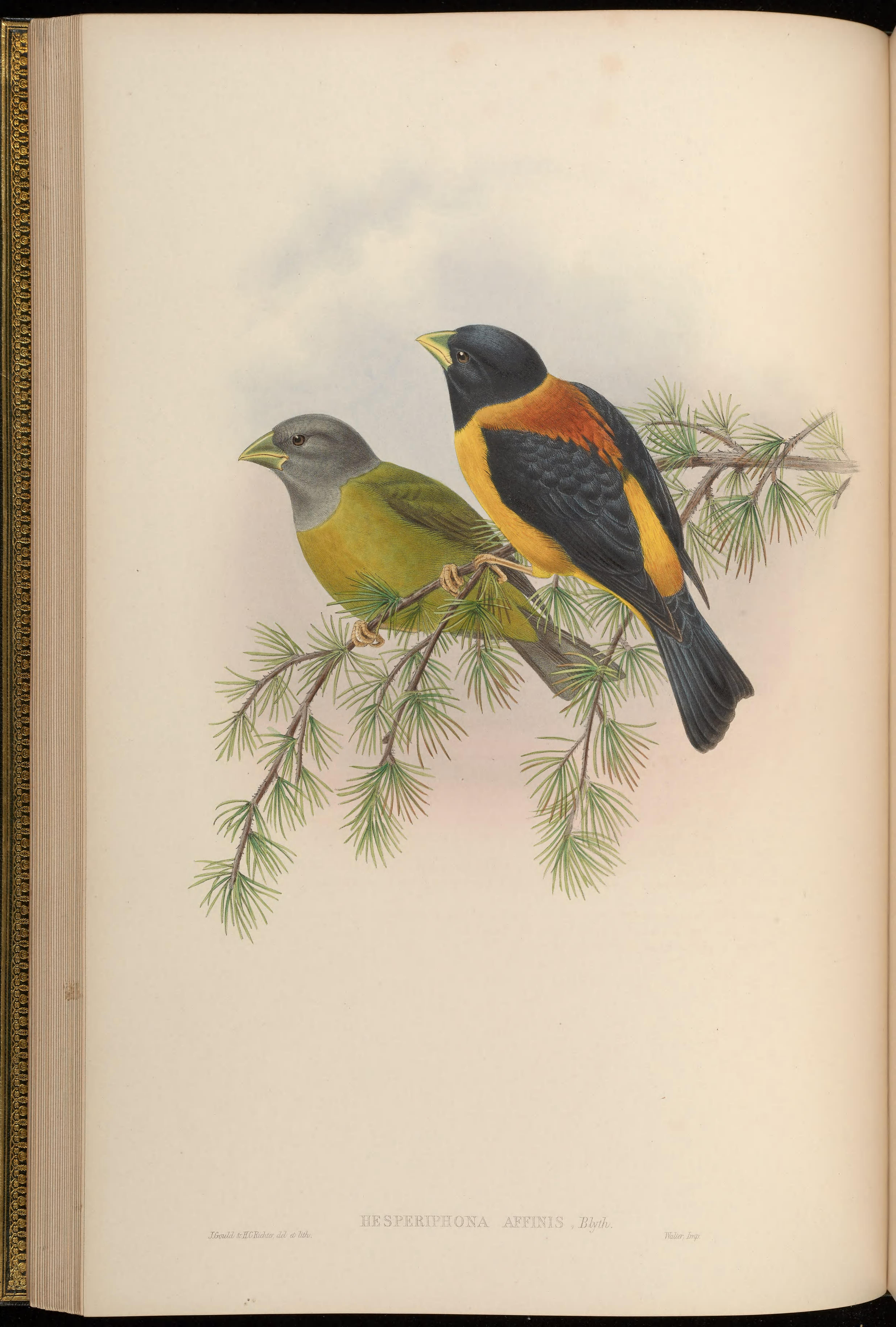 Hesperiphona affinis = Mycerobas affinis[1]